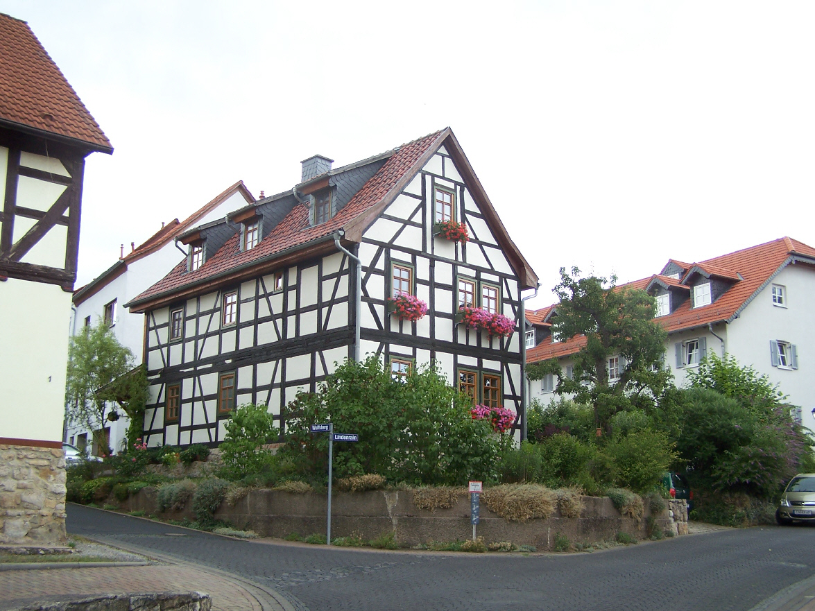 Timber-framing houses at the Lindenrain road in the center.